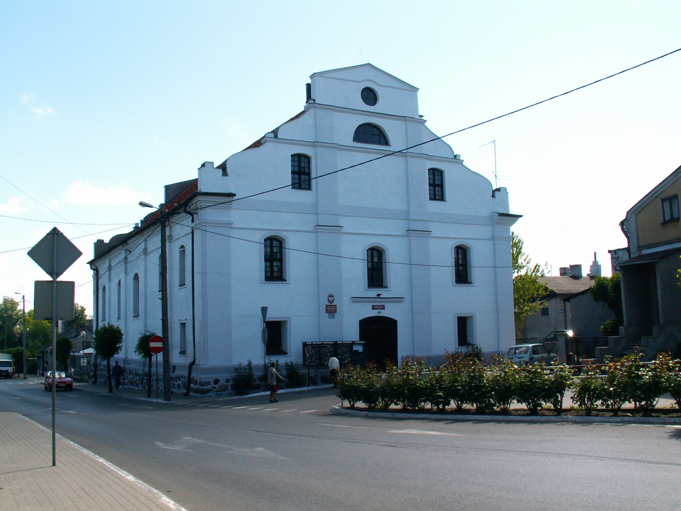 Synagogue in Lubraniec